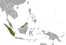 Dayak Fruit Bat (Dyacopterus spadiceus) range